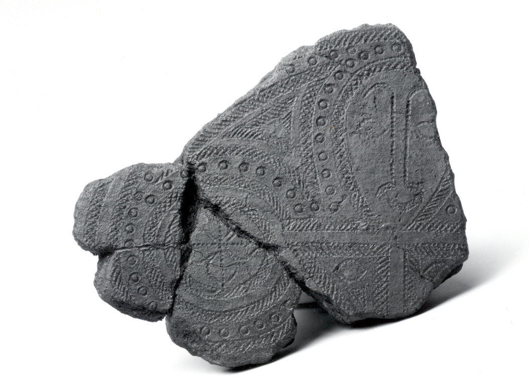 Lapita people; Cast; Plaster-Reproductions